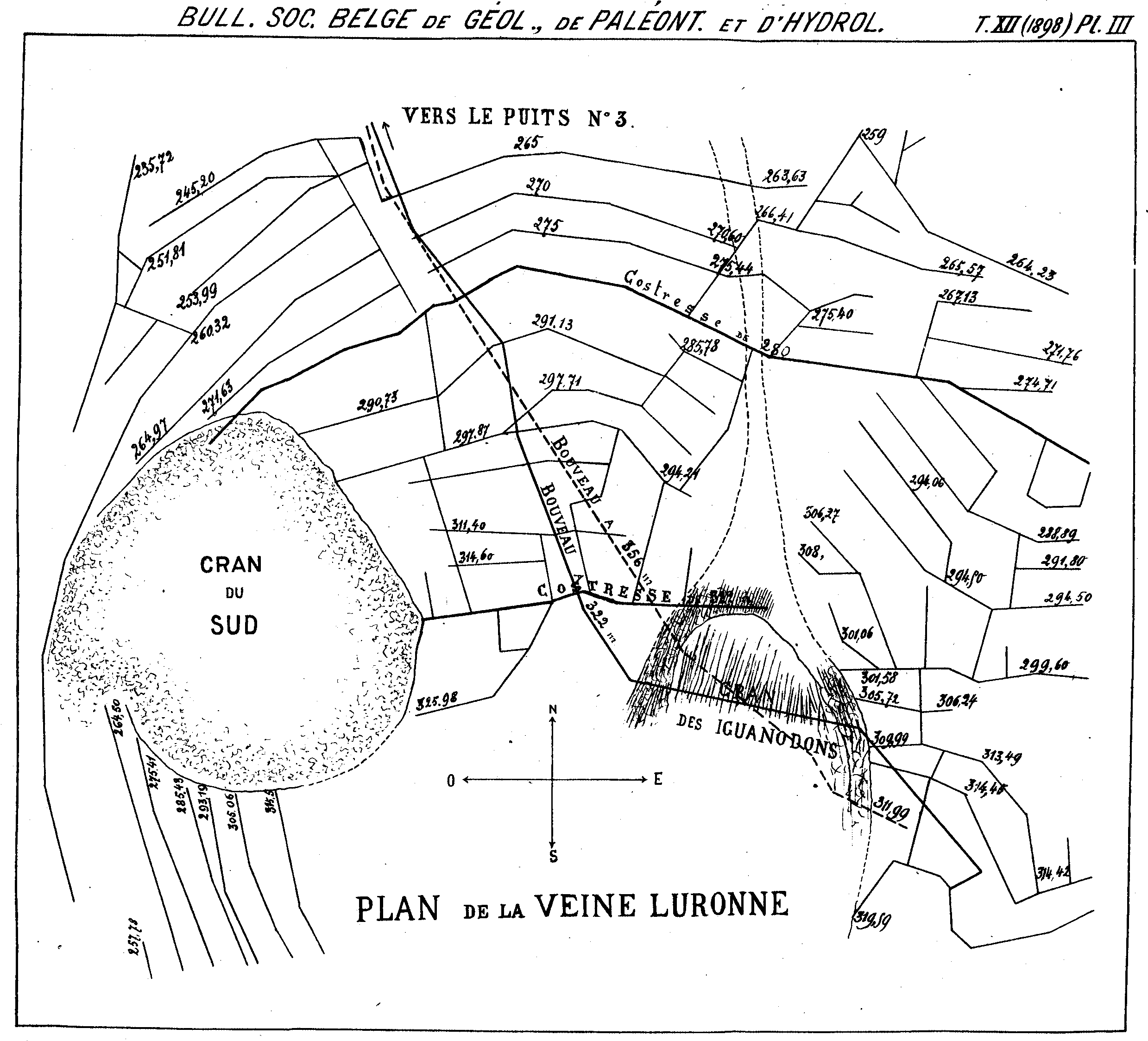 Map of coal seam Luronne in Bernissart, Belgium 1898